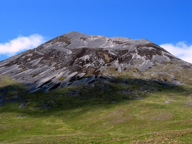 Beinn Shiantaidh Viewed from north shore of Loch an t-Siob.